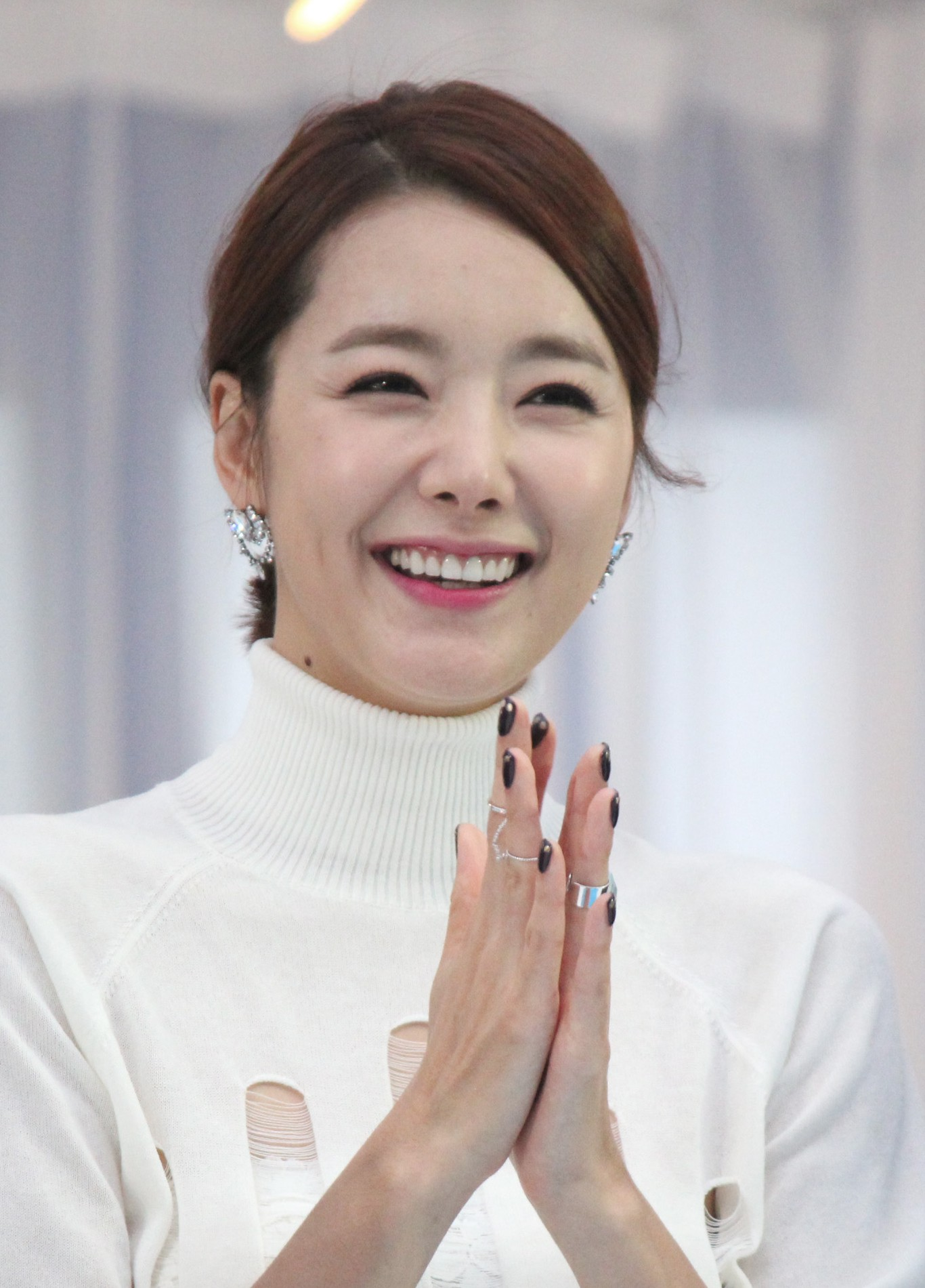 So Yi-hyun at BIFF 2013